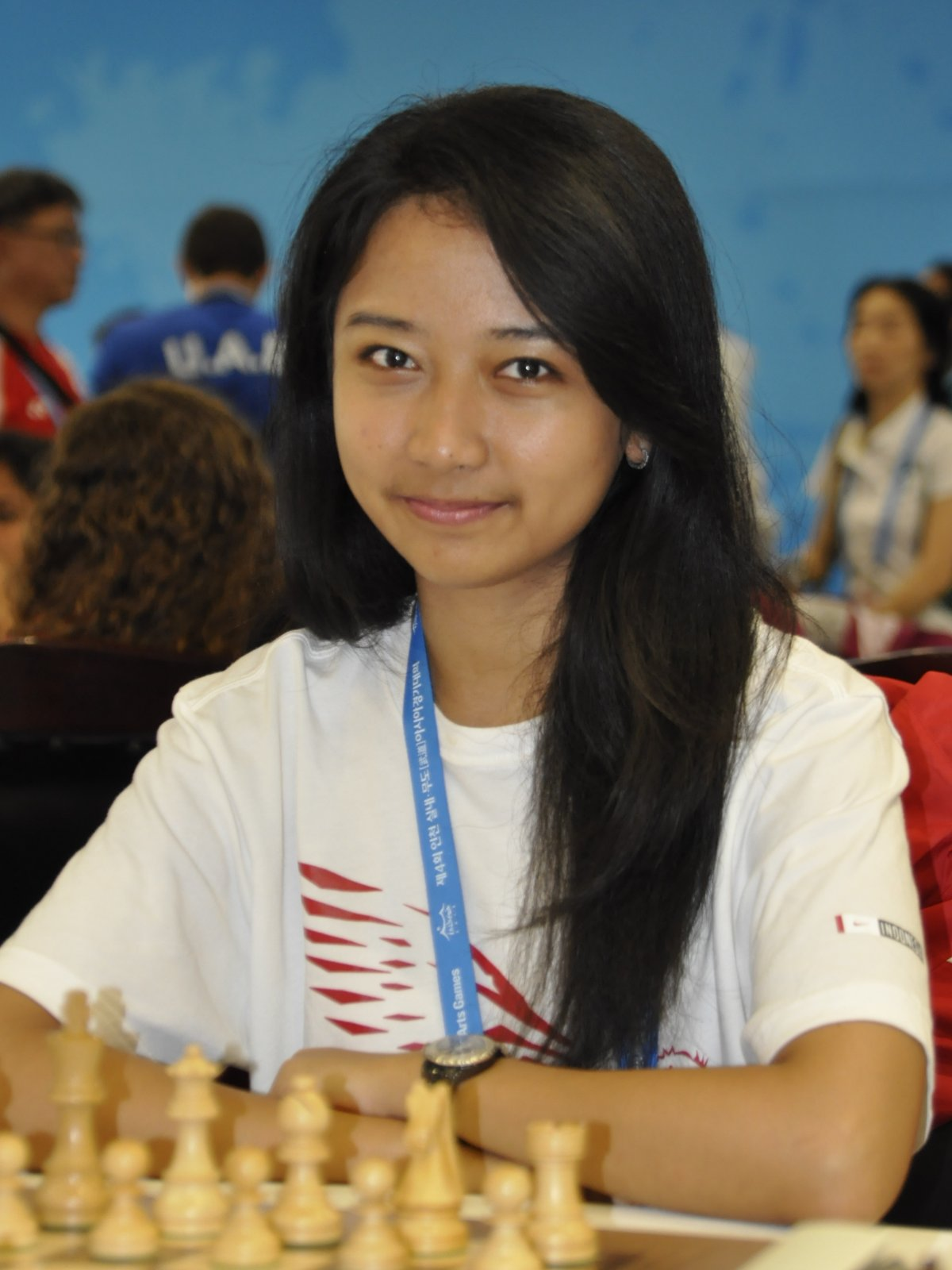 Irine Kharisma Sukandar at the Asian Indoor Games in Incheon, South Korea in July 2013.